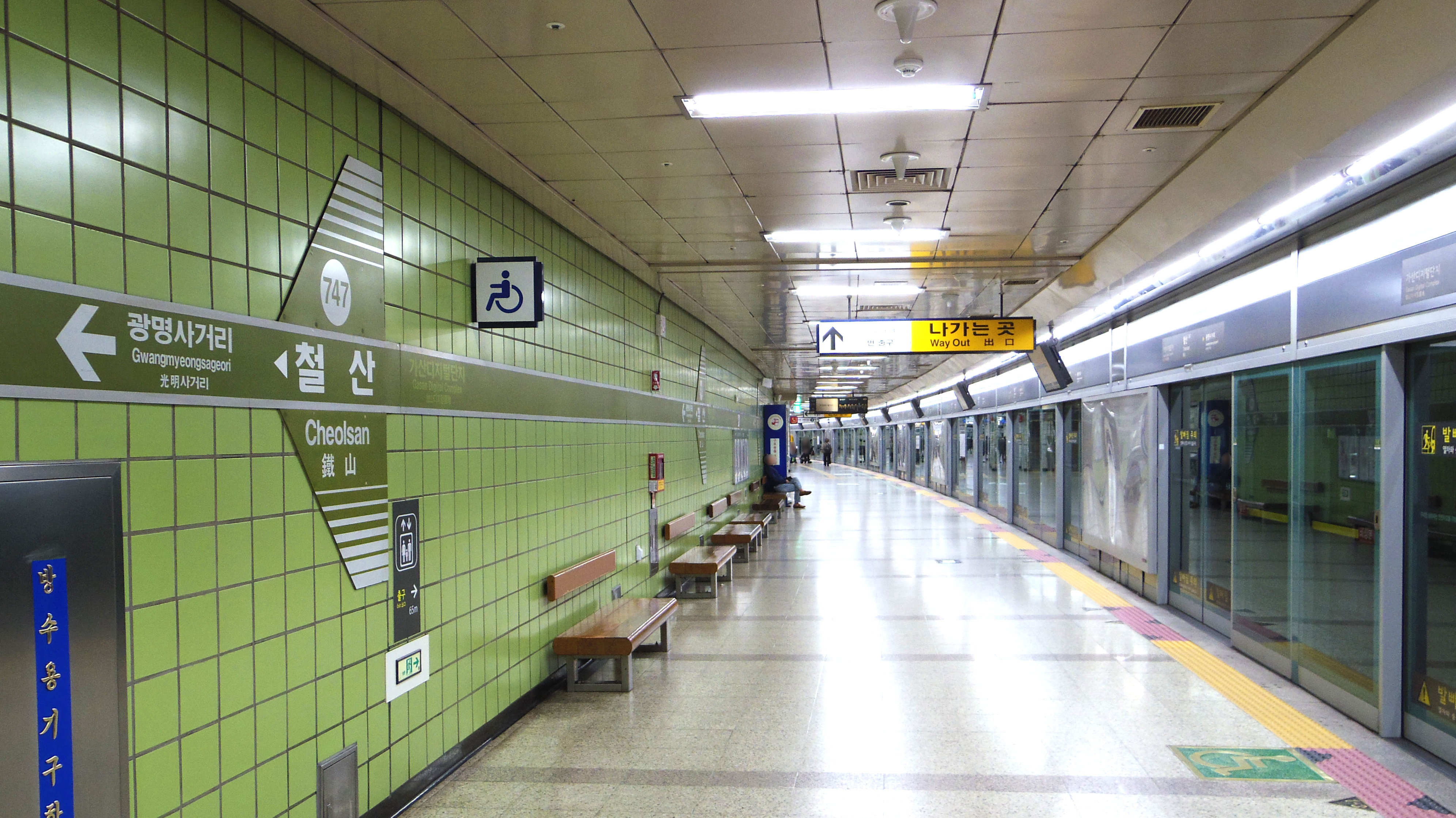 The Onsu-bound platform at Cheolsan Station on the Seoul Subway Line 7 in Gwangmyeong city, Gyeonggi-do(province), Republic of Korea(South Korea)